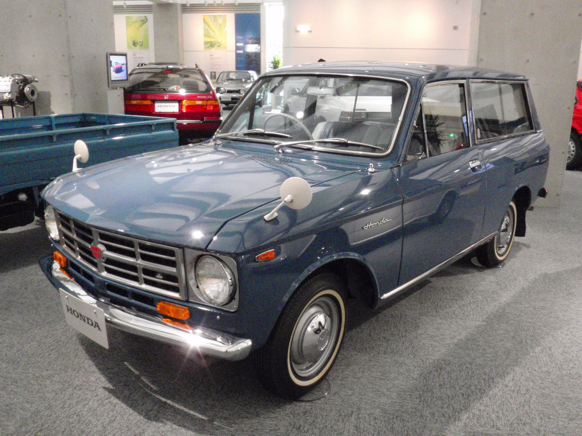 A Honda L700 at the Honda Collection Hall, Twin Ring Motegi.